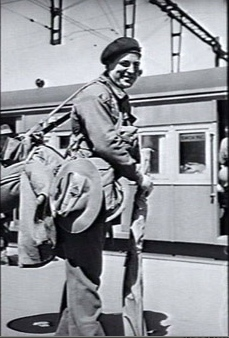 This image shows a photograph of Laurie Nash, taken in 1943. Under Australian law, all photographs taken in Australia before 1955 are in the public domain. This image is in the public domain under both Australian copyright law and US copyright law. Accessed from